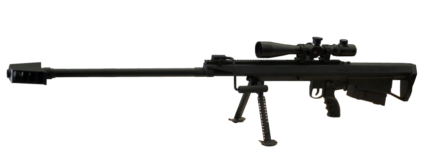 Cut out photoshopped from photo I took during May 26 2014 Georgian Independence Day weapons exposition by "DELTA"